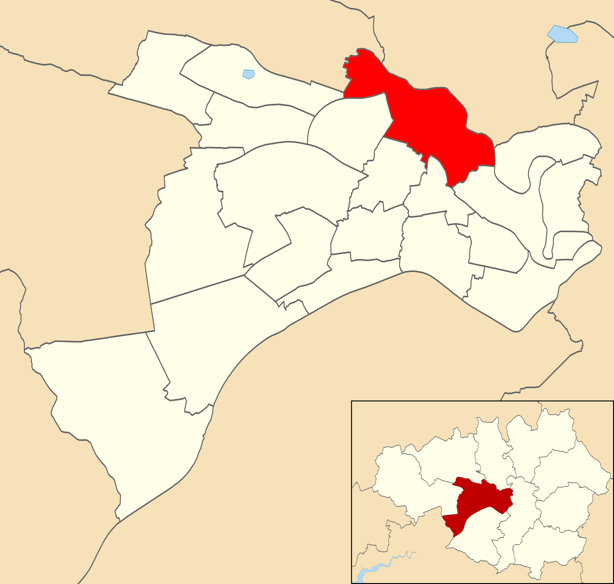 Map showing location of Pendlebury ward within Salford City Council.